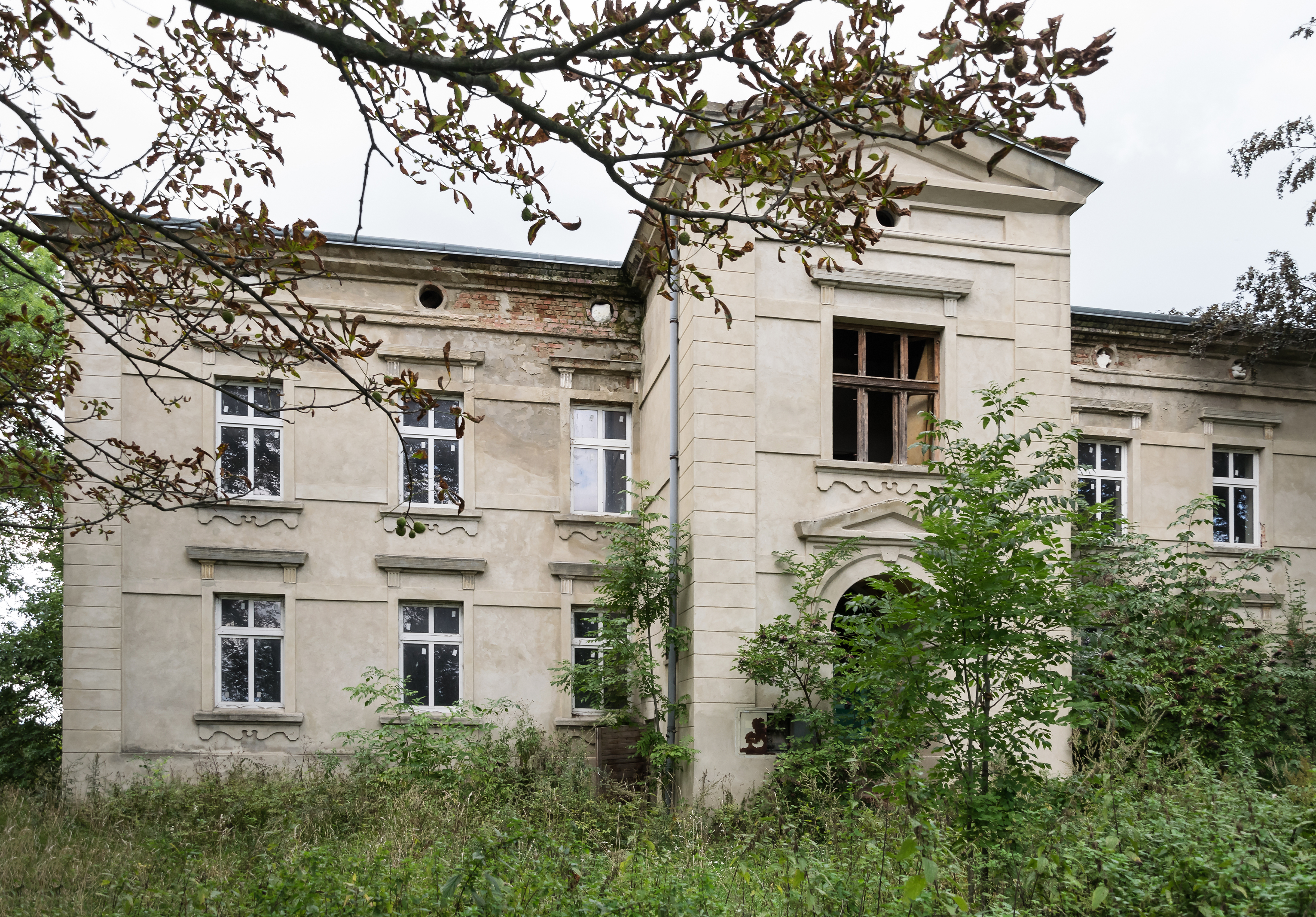 Palace in Brodziszów